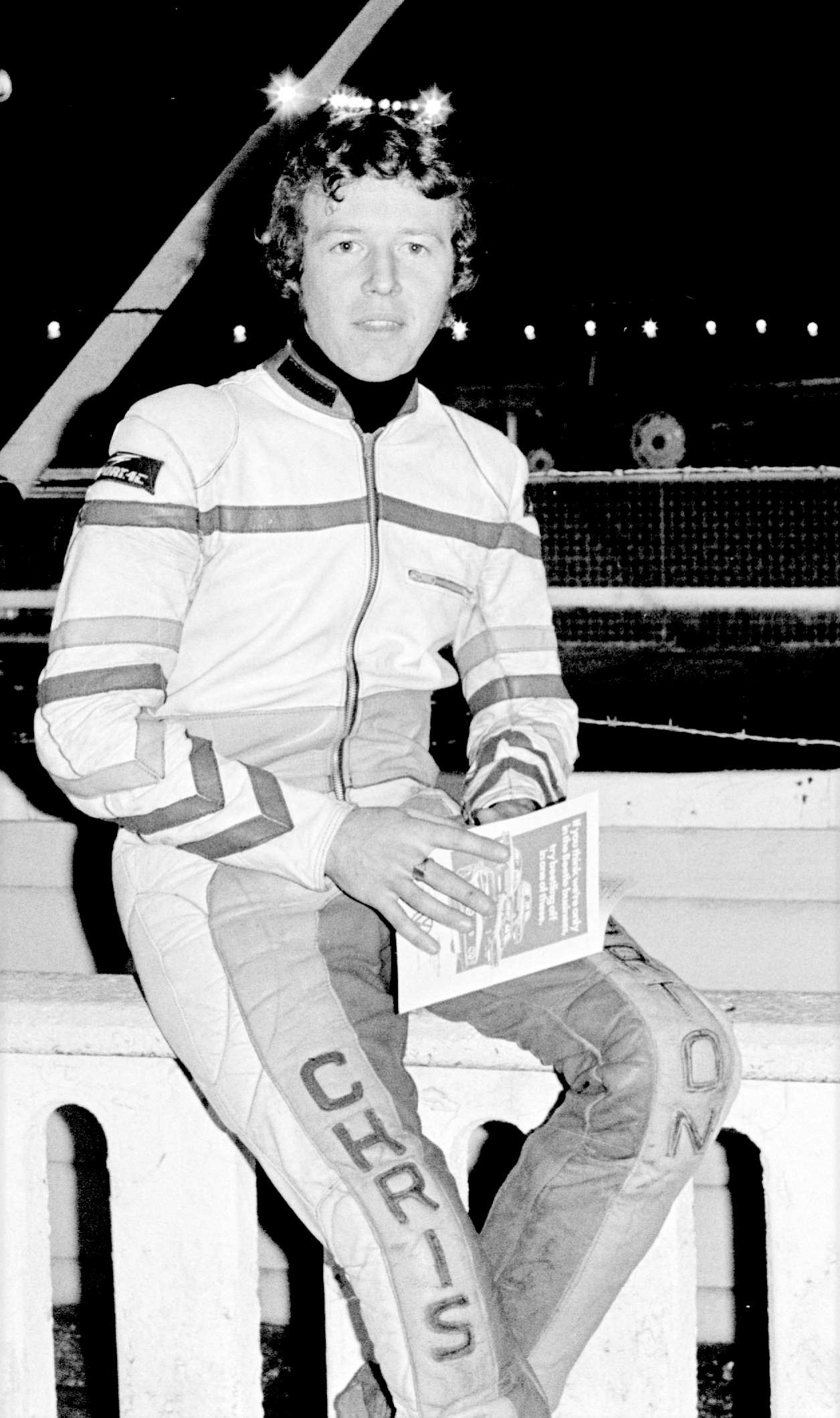 Chris Morton at VW Grande Prix